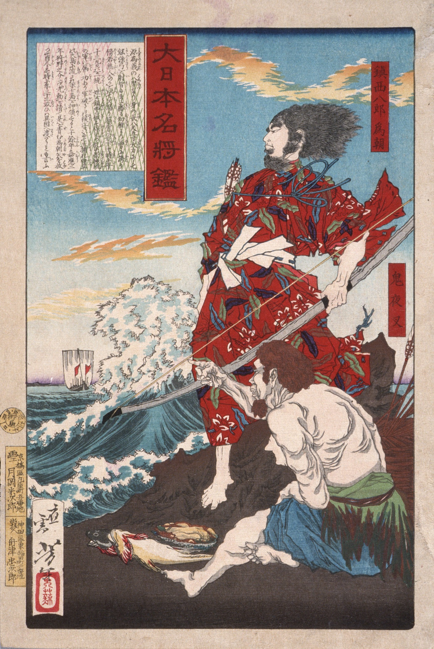 Japan, 4/1879 Series: A Mirror of Famous Generals of Japan Prints; woodcuts Color woodblock print Herbert R. Cole Collection (M.84.31.244) Japanese Art 『鎮西八郎為朝鬼夜叉』源為朝（鎮西八郎）と家来の鬼夜叉（女護島で妻にした女の父親）。為朝は弓の名手だったが、戦に敗れ、伊豆大島に流罪となった。詞書に「源為義の八男。身の丈八尺五寸、大力で強弓を引き、知略にも優れていた。勇ましいことを自慢し、傍若無人であったため、十三才の時、父により筑紫へ追放されたが、九州を統一し姓を鎮西とする。保元の乱では、崇徳院方として活躍したが、戦いに敗れ、近江国で捕らえられた。伊豆大島に流されたが、七島を押領すること十余年。嘉応二年、勅命を受けた狩野介茂光（工藤茂光）に攻められ、為朝は矢を放って抵抗したのち自刃した。享年三十三。あるいは異国に渡ったとも言う」。保元物語では流罪になった為朝は鬼ヶ島から家来を一人連れて帰ったが、ある日茂光らの大軍が船で押し寄せてくるのを見て、最早これまでと悟り自害したとある。